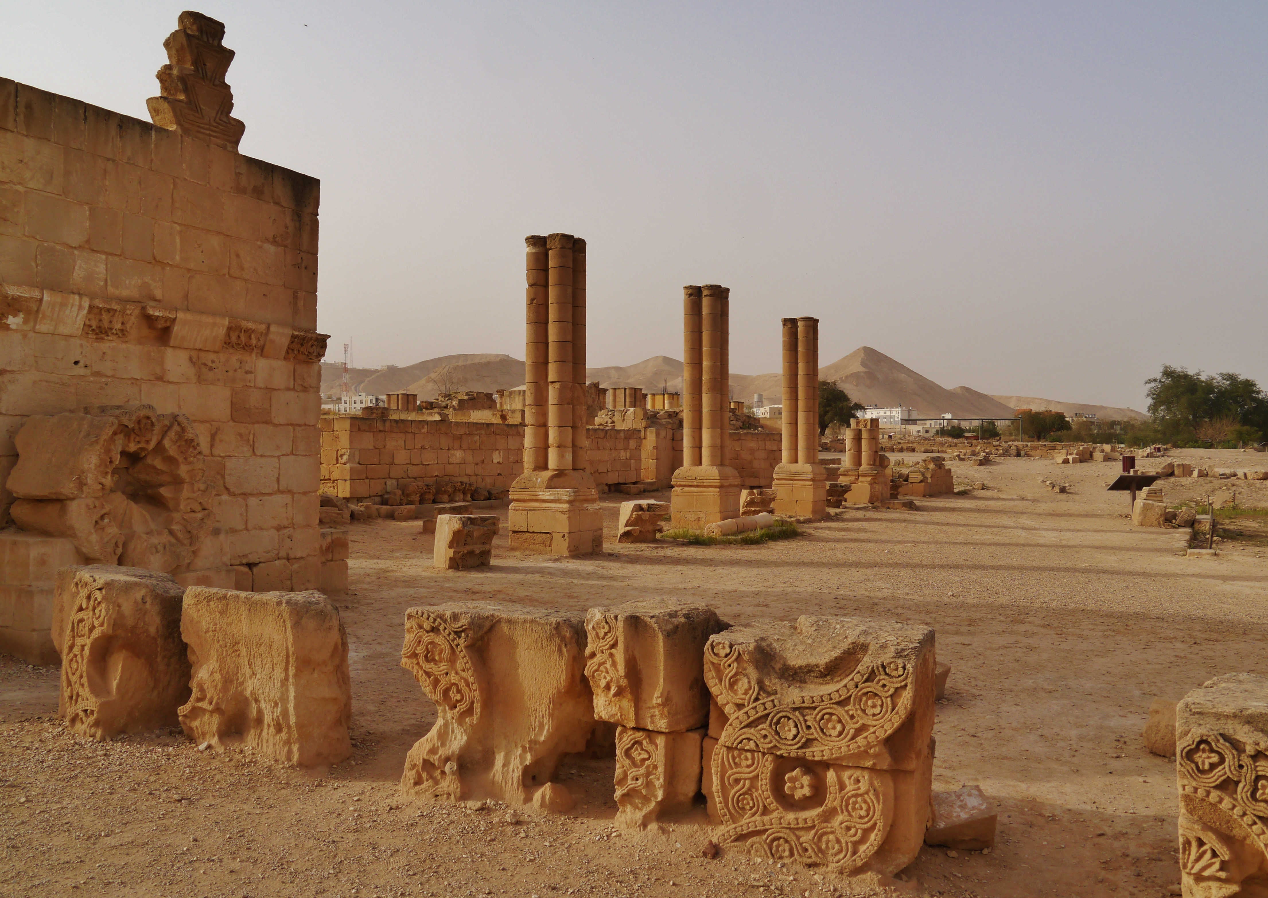 Hisham's Palace, Jericho, Palestine